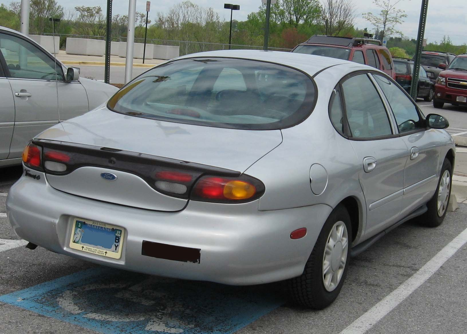 1996-1997 Ford Taurus photographed in USA.